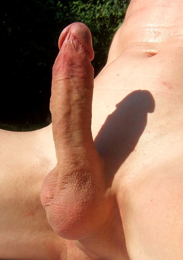 full erect and shaved penis, uncircumcised retracted foreskin